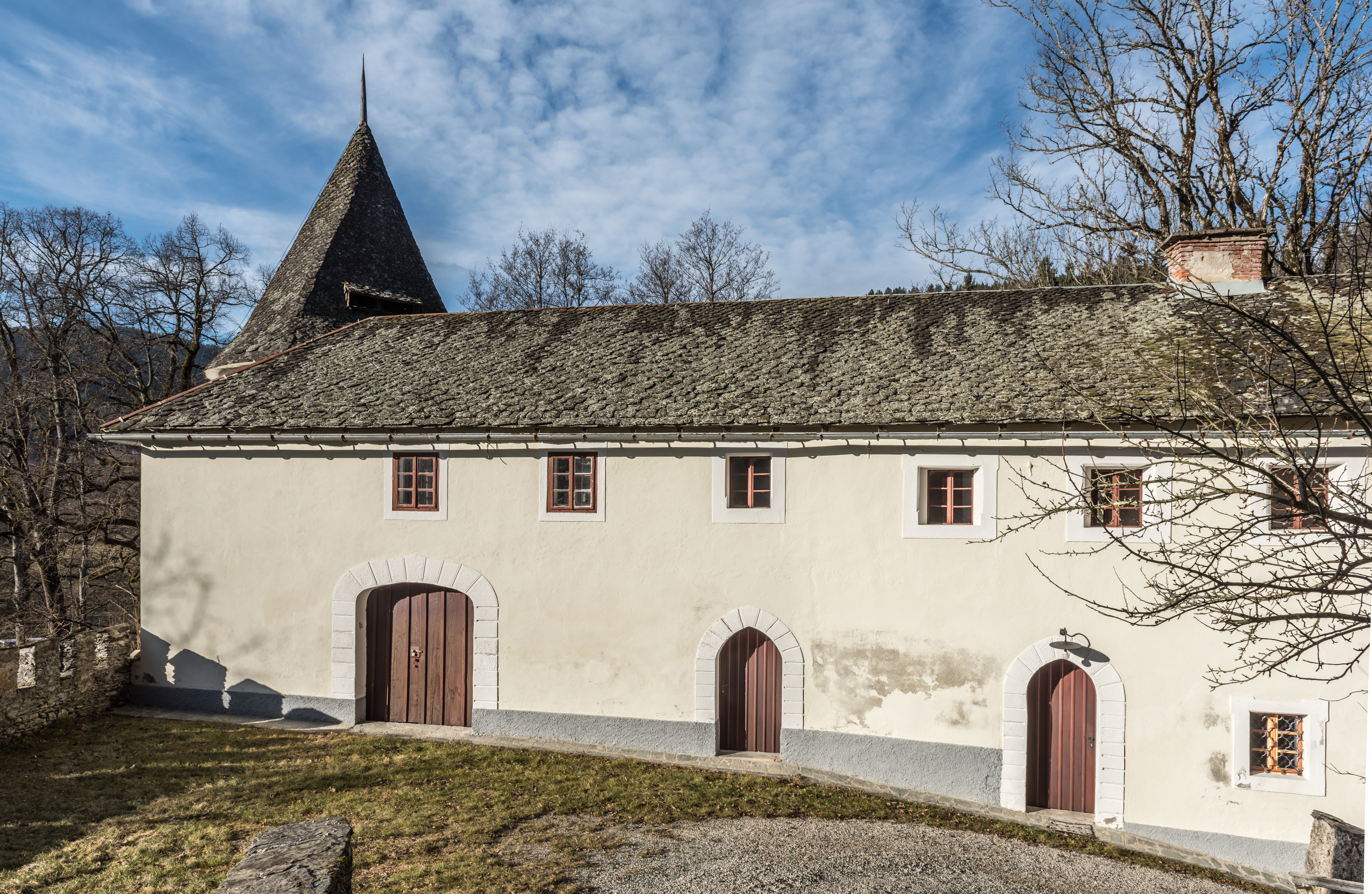 Manor and folwark complex of castle Frauenstein, municipality Frauenstein, district Sankt Veit, Carinthia, Austria, EU